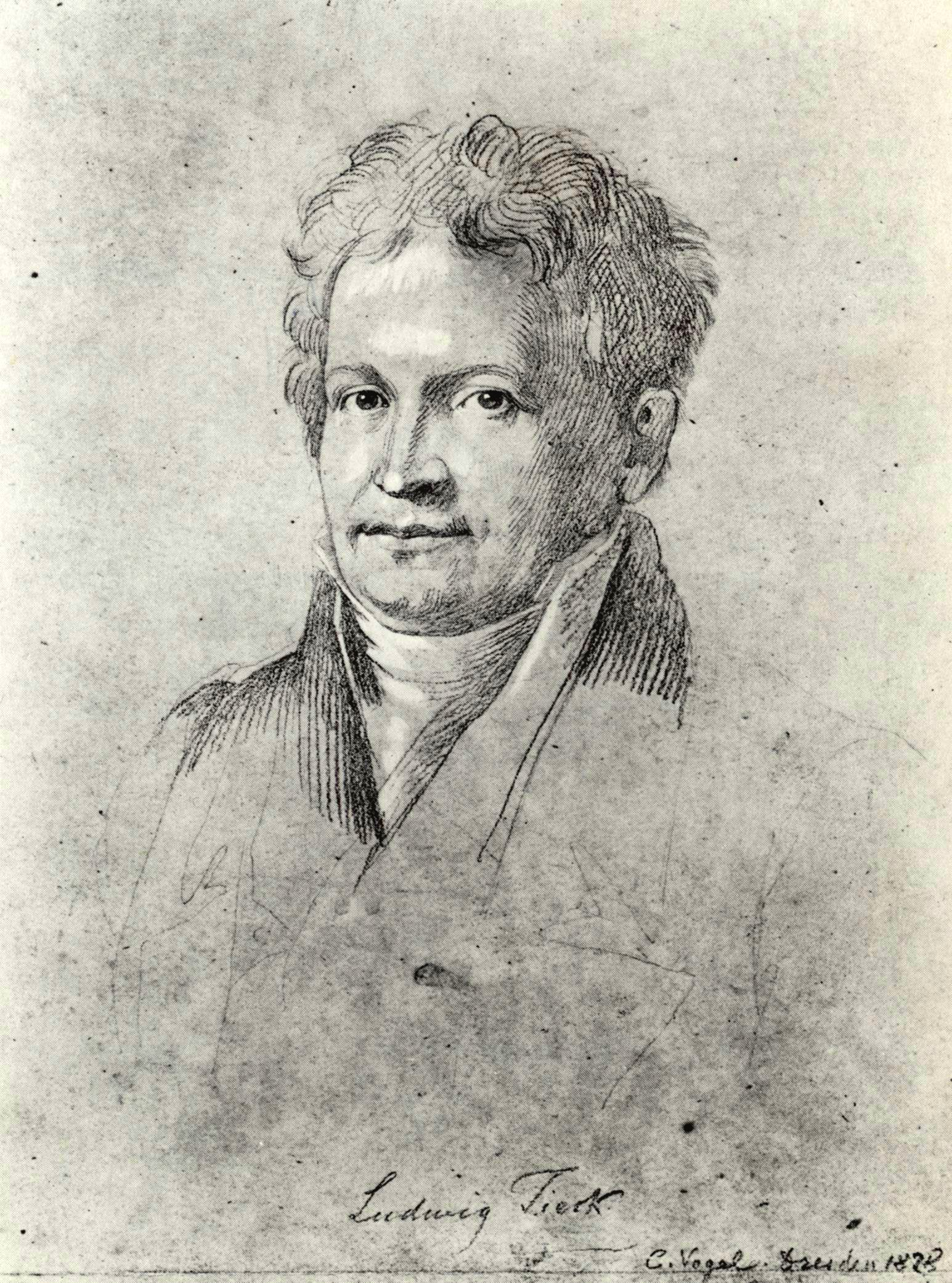 Portrait of Ludwig Tieck, made by Carl Christian Vogel von Vogelstein (Dresde, 1828)